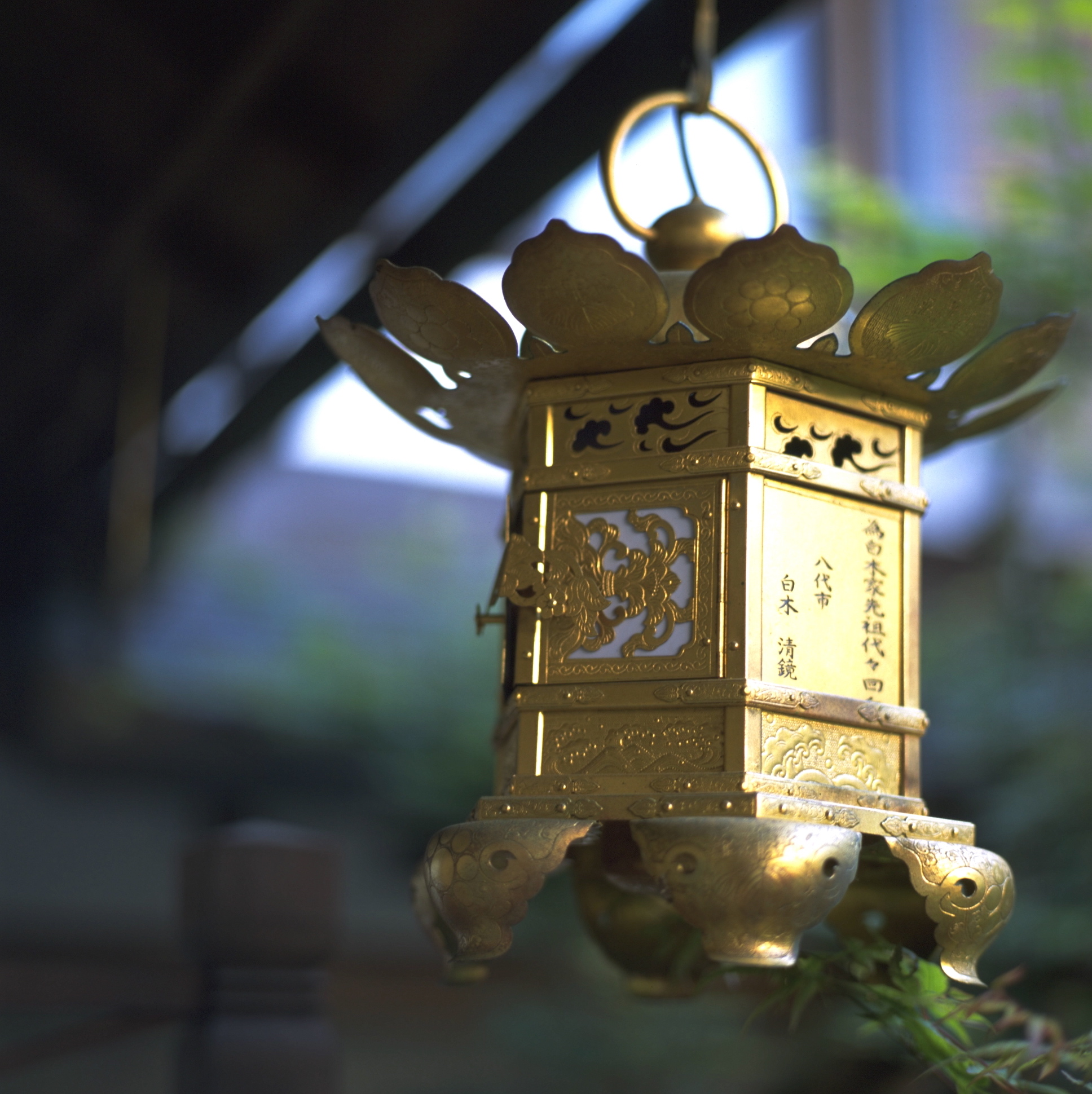 Sponsored lantern at temple